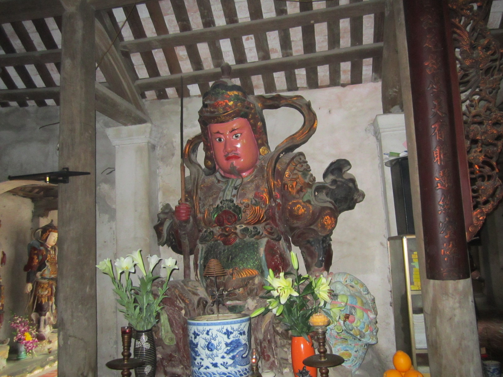 Dharmapala Trung-ac at Vietnamese Buddhist temple Chua Nom